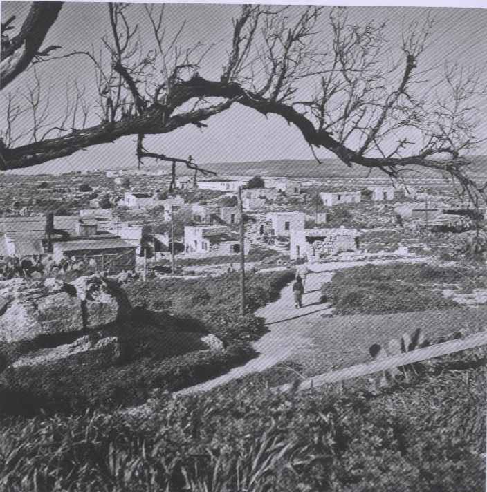 Moshav Habonim (On the land of the Abandoned arb village, Lam) 1954, Central Zionist Archives.